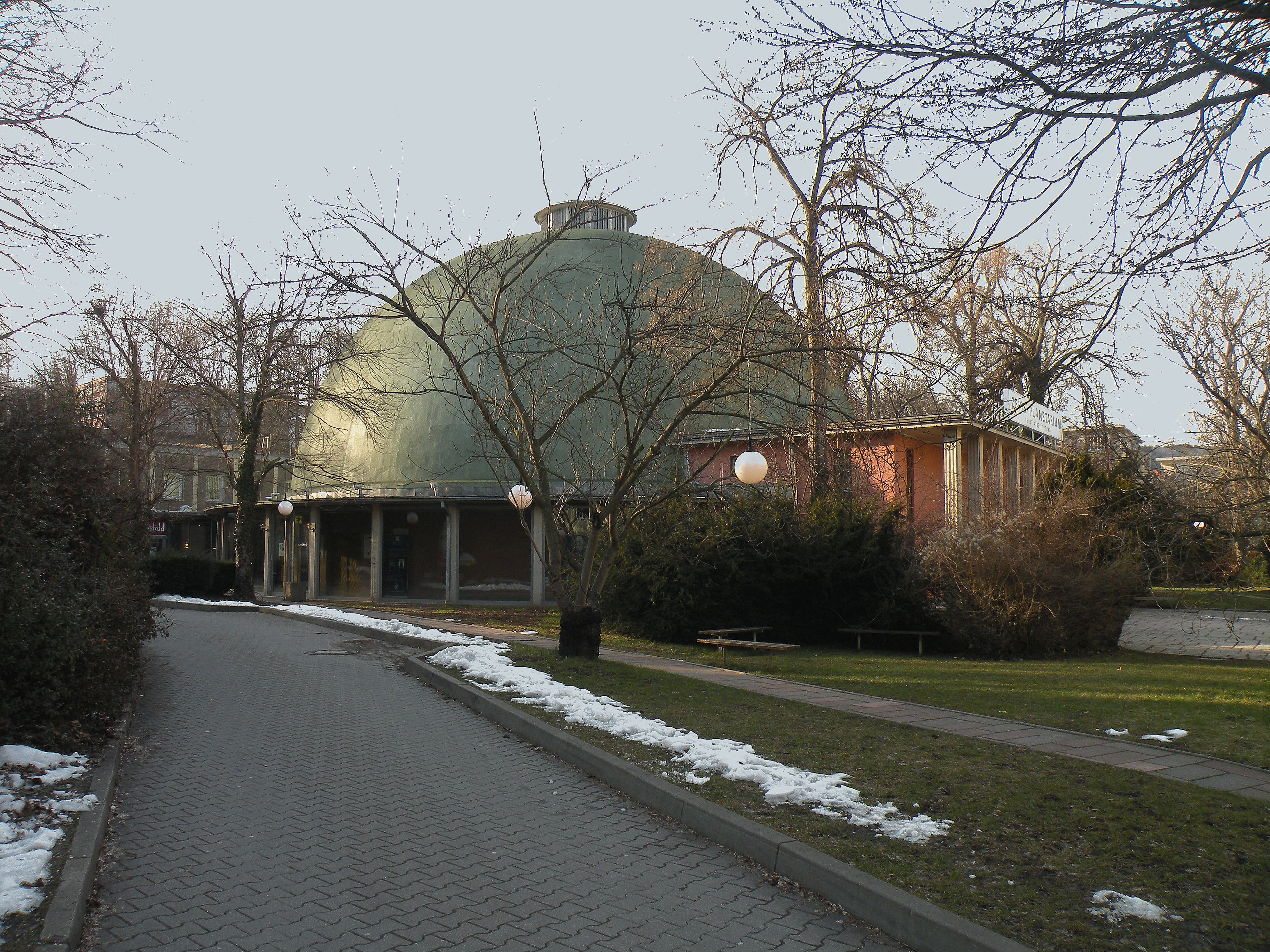 Zeiss Planetarium in Jena, Germany